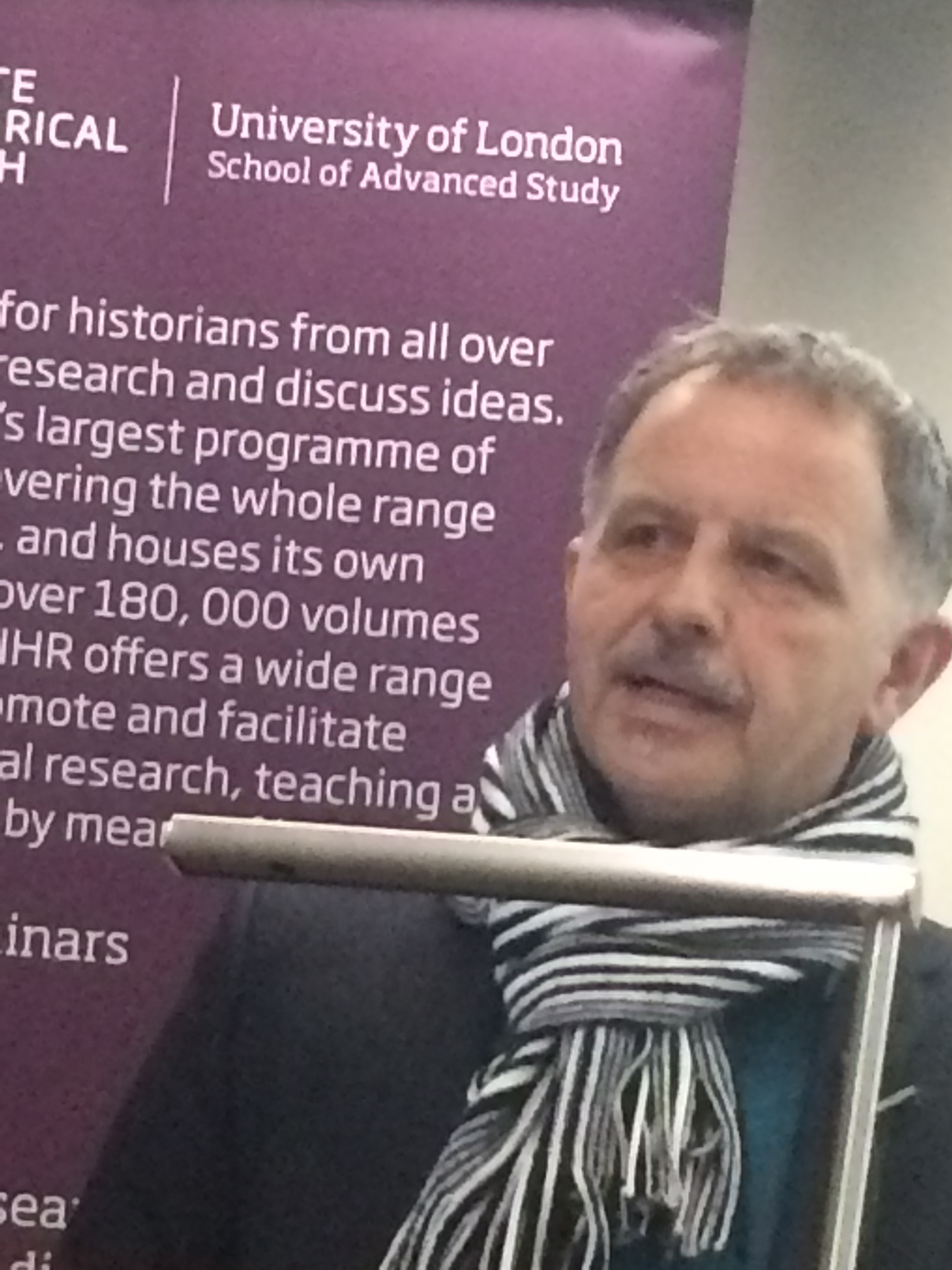 Simon Shaw-Miller at IHR, London